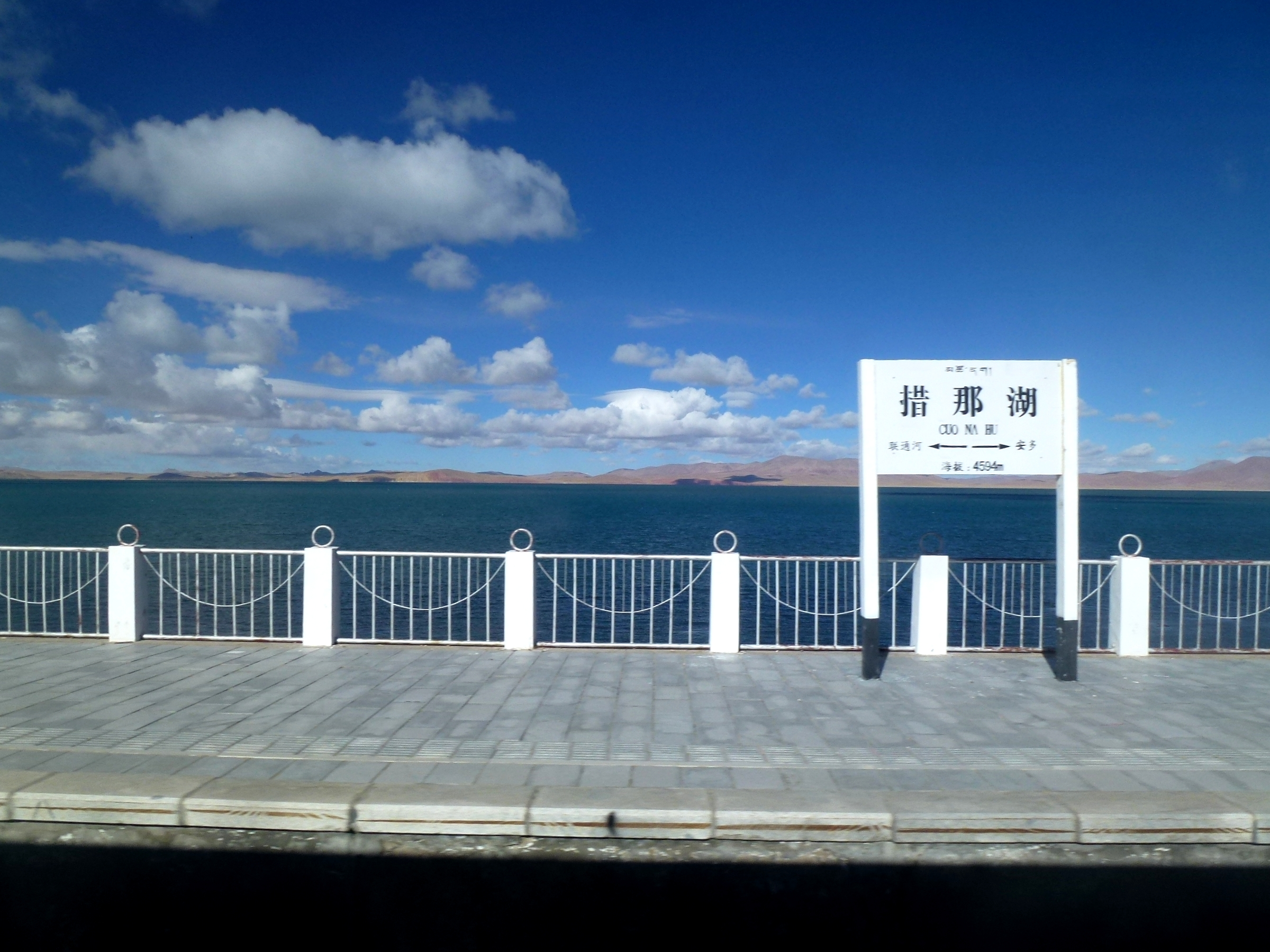 4,594m Lake Cuona Railway Station Qinghai Tibet Railway Tibet China 西藏 青藏铁路 措那湖站